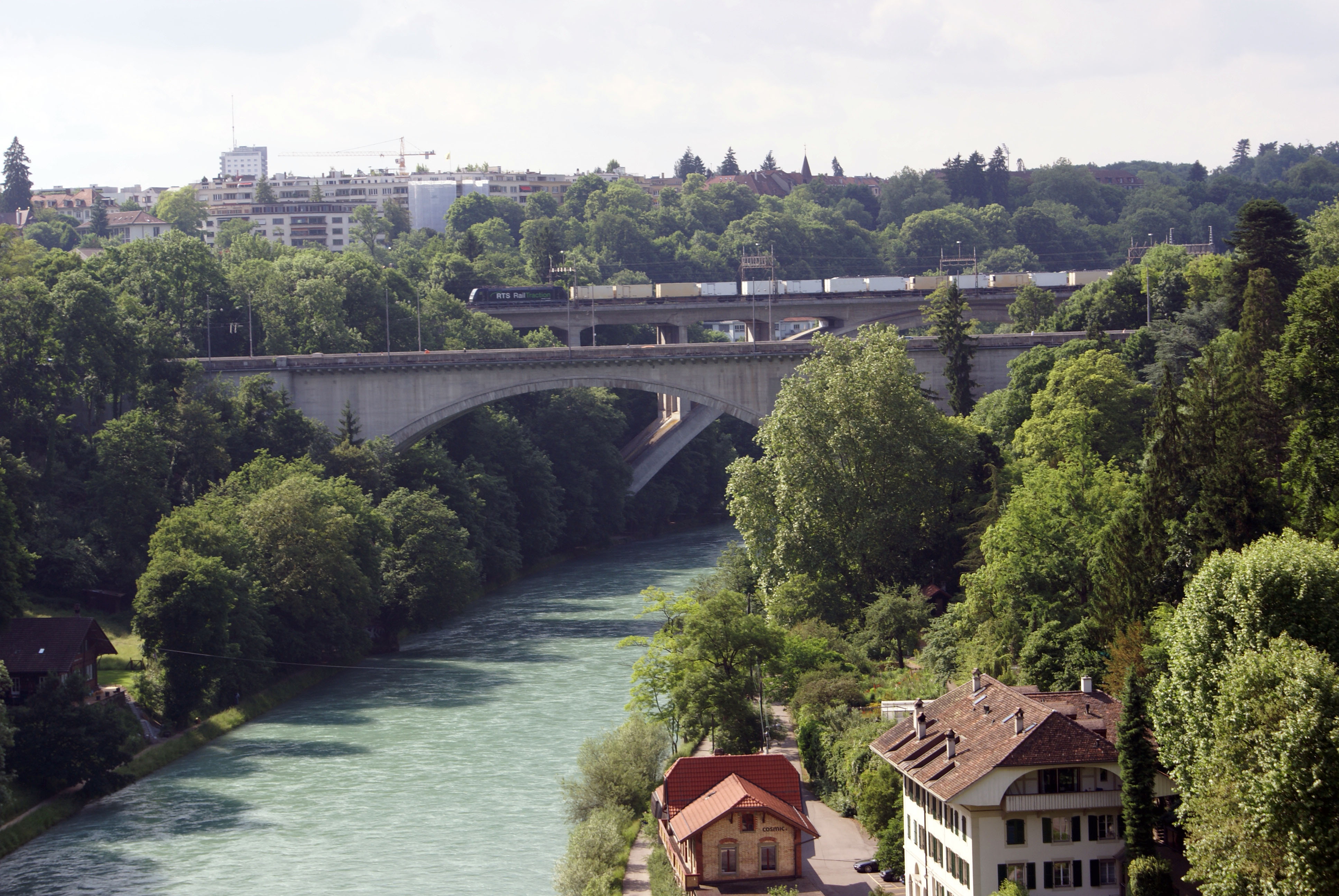 Lorrainebrücke, Berne, Switzerland. First reinforced concrete high level bridge in Berne, built in the then-popular Heimatstil to resemble the older stone bridges. In the background, the railway viaduct (Lorraineviadukt).